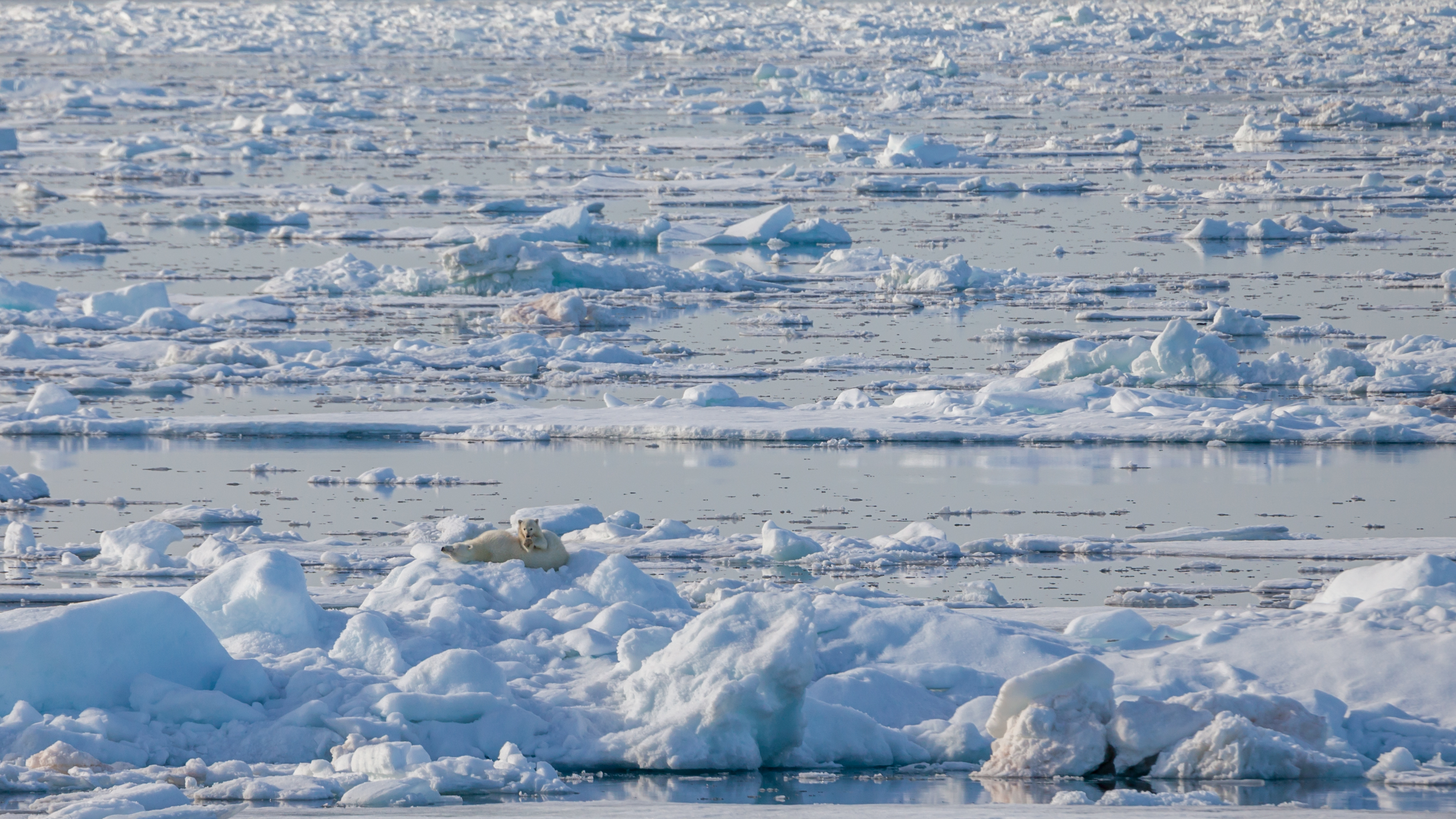 I early summer, the Hinlopen strait at the archipelago of Svalbard often still is filled with dense drift ice. This gives the female polar bears who give birth to their cubs on Barentsøya or Edgeøya the chance to reach the northern pack ice regions with plenty of preys in due time.